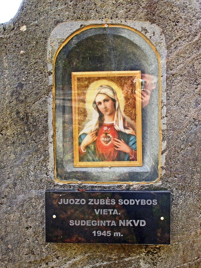 Žalgiriai monument, Skuodas district, LithuaniaLietuvių: Paminklas NKVD sudegintos sodybos atminimui, Žalgirių k., Skuodo rajonas, Lietuva